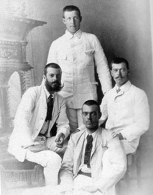 Grand Duke Alexander,Grand Duke Sergei Prince George of Greece and Nicholas II